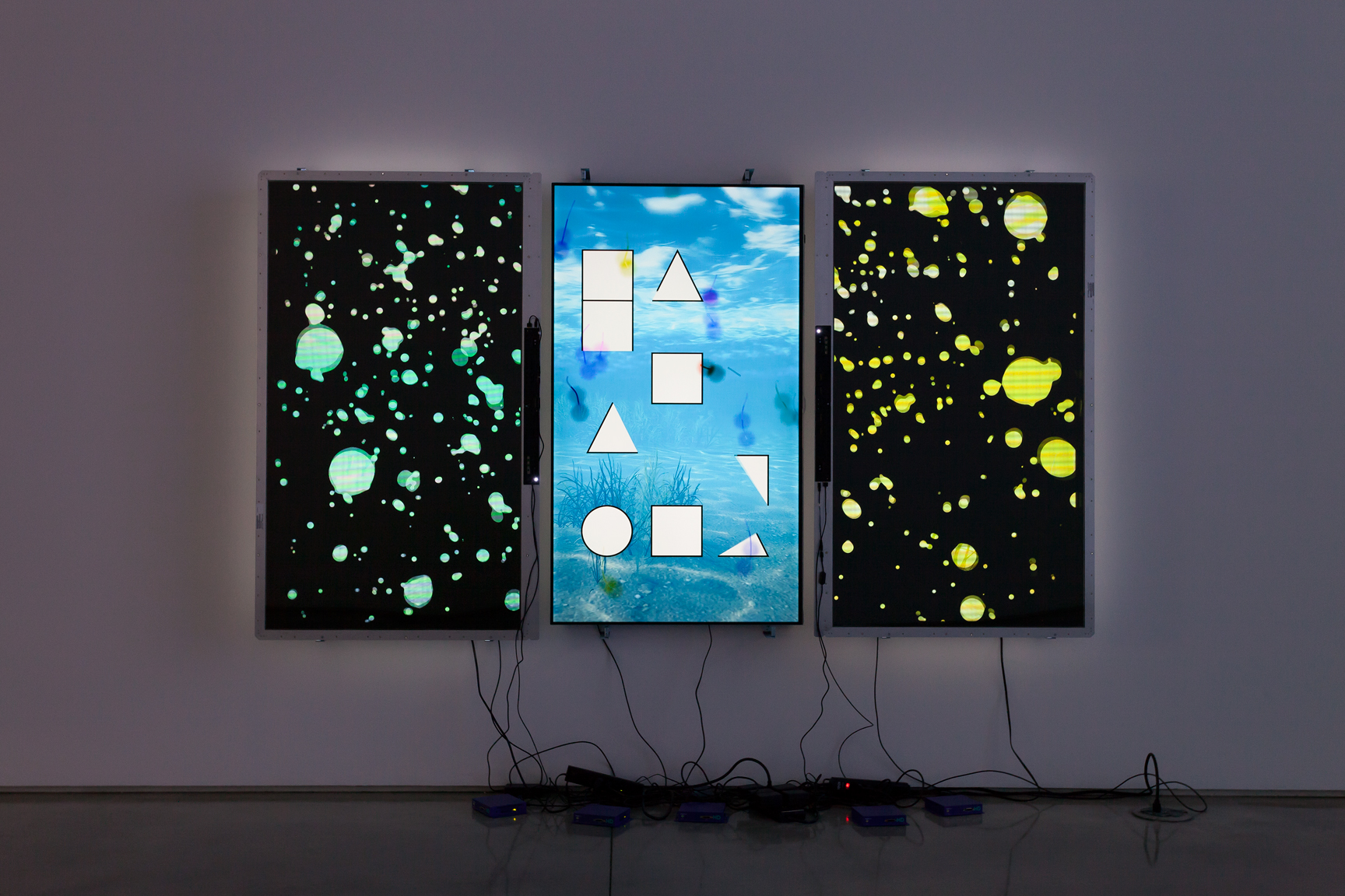 Tabor Robak's artwork Newborn baby